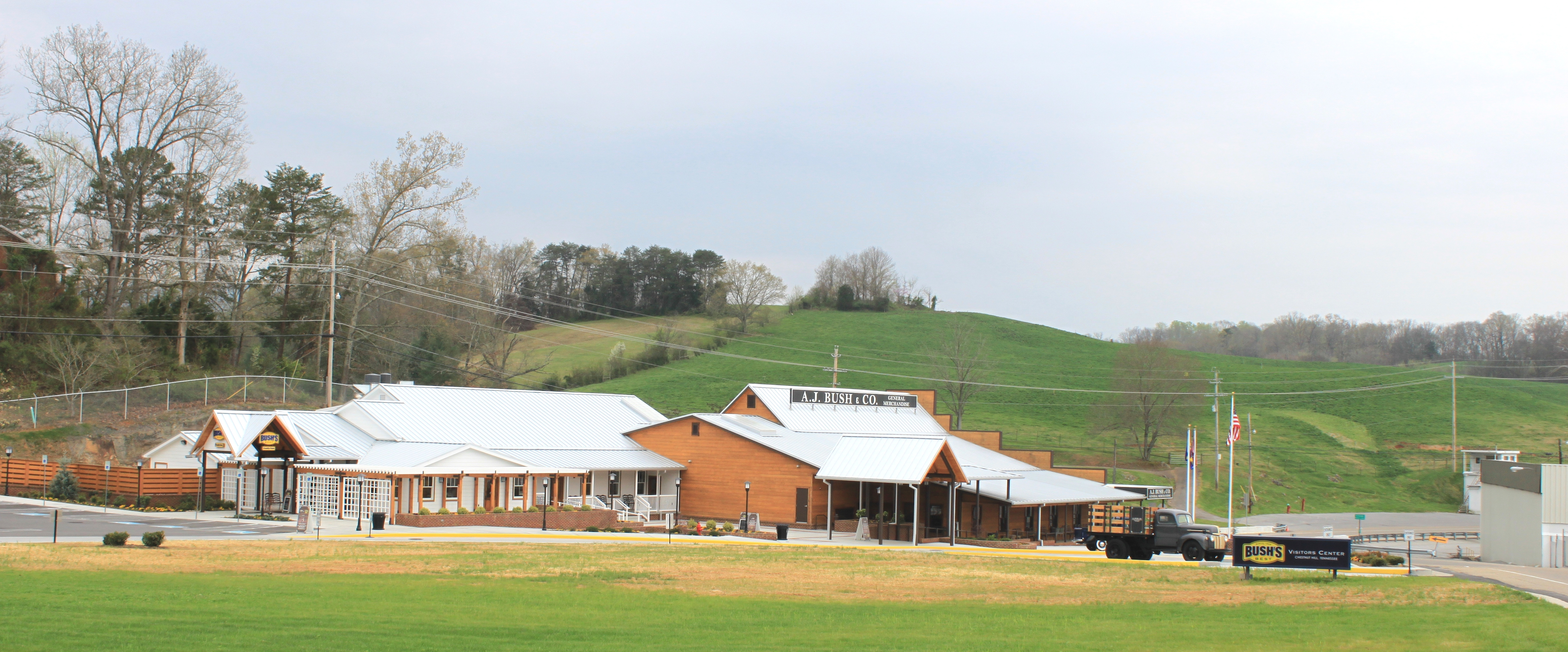 Bush Brothers Visitor Center, Chestnut Hill, Tennessee